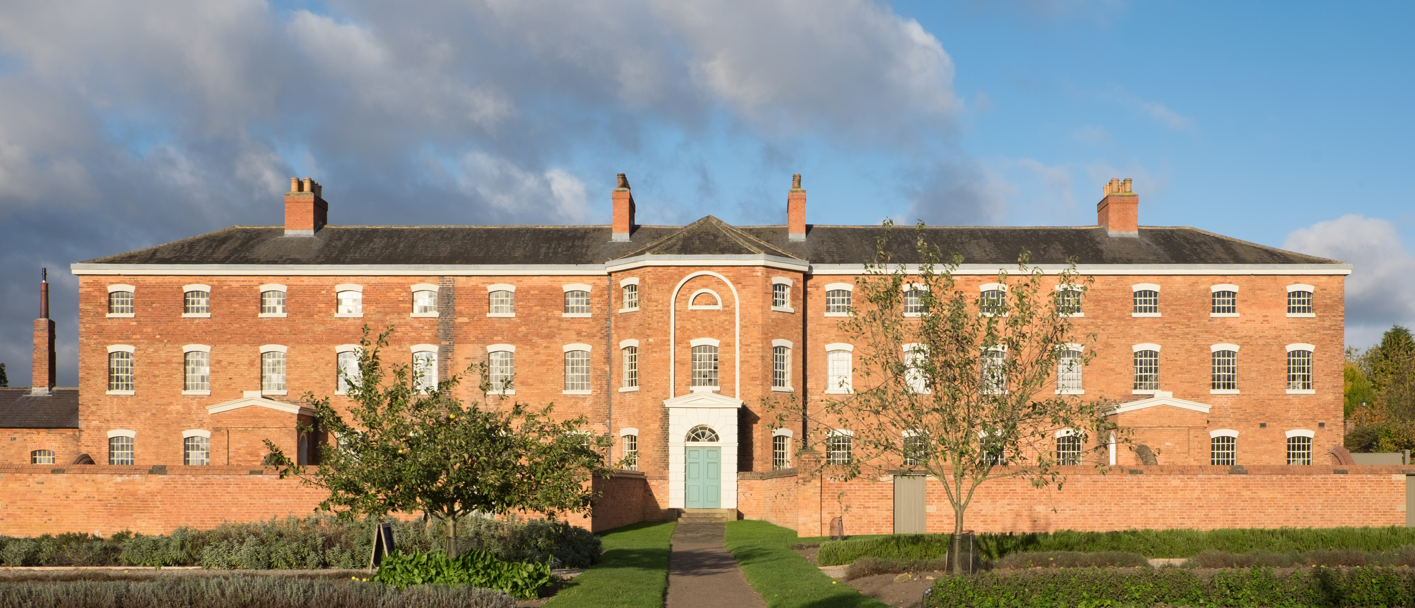 Southwell Workhouse, Nottinghamshire. This workhouse was opened in 1824 and is a Grade II* Listed Building in England.